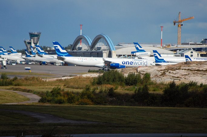 Finnair planes at Helsinki-Vantaa airport